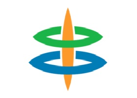 Flag of Kushimoto Wakayama